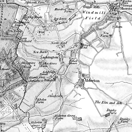 Luckington in about 1825